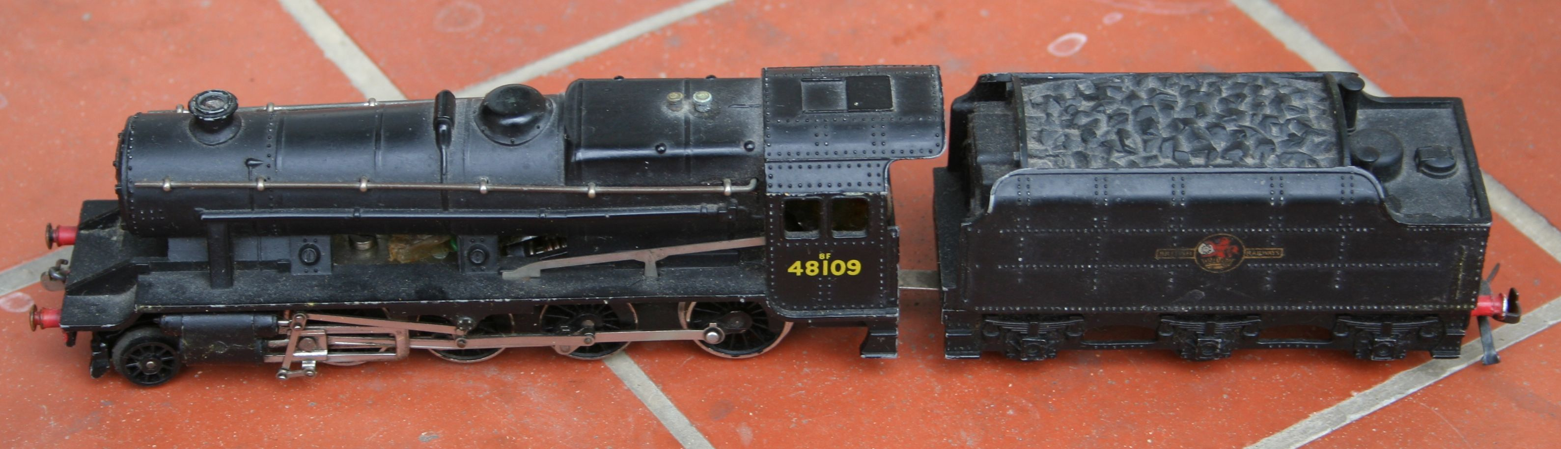 A Hornby Dublo OO gauge model of an 2-8-0 8F locomotive.